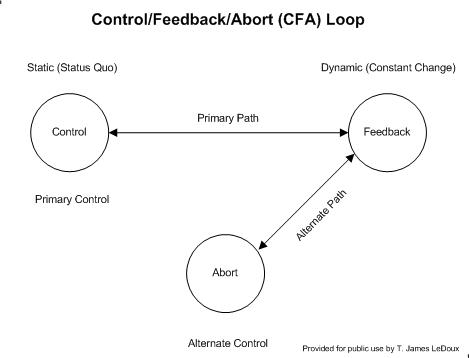 Control-Feedback-Abort Loop general diagram